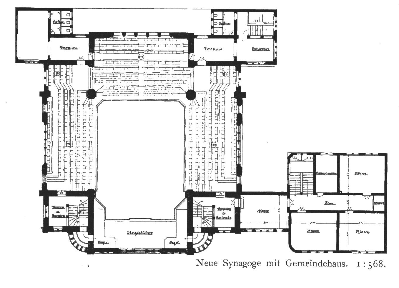 t